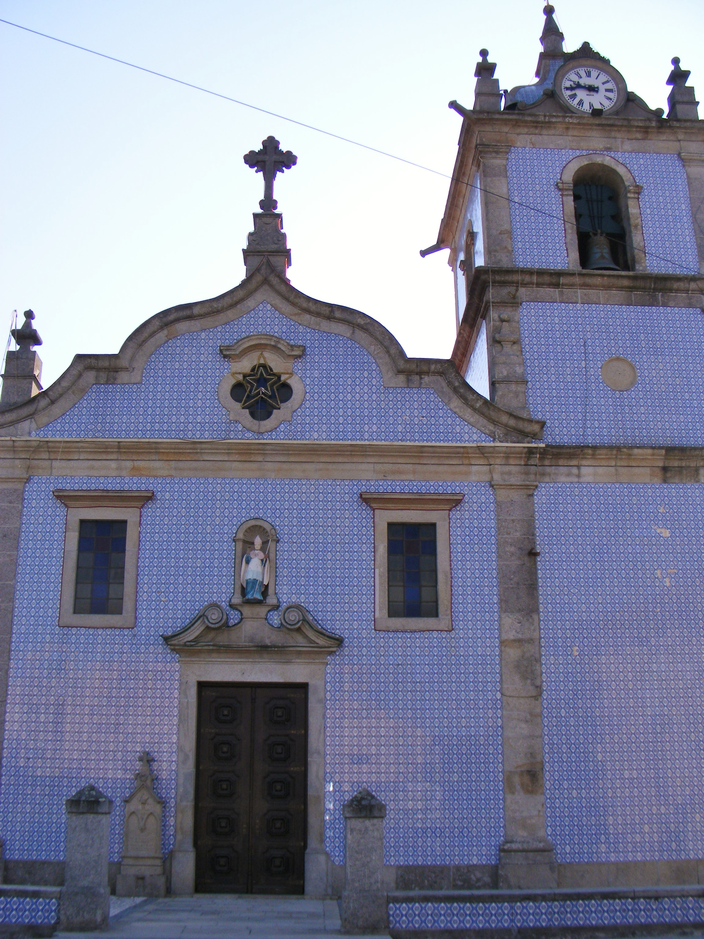 St. Martin Church